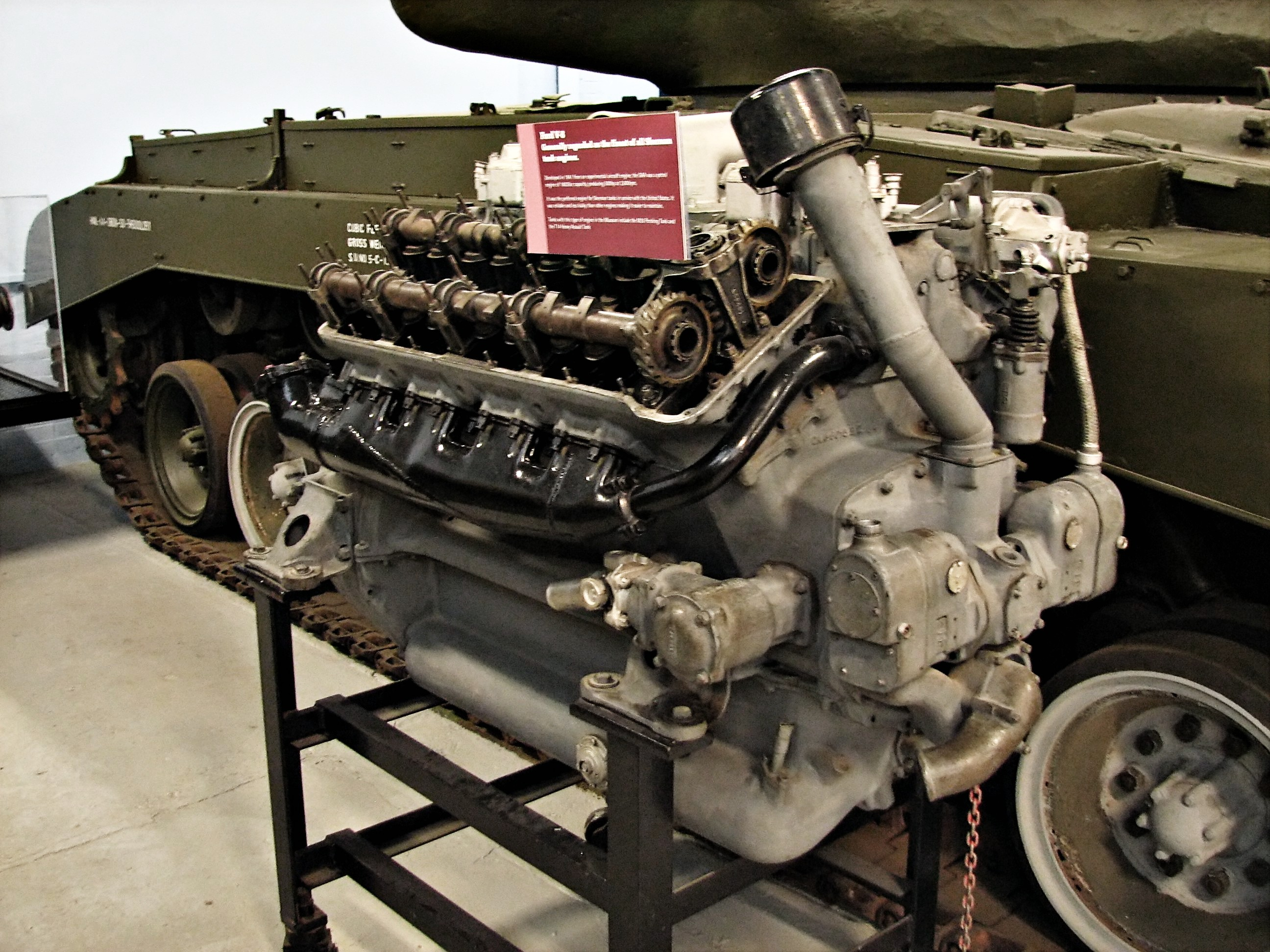 Ford V8 Tank engine as used in Sherman and Pershing tanks, Bovington Tank Museum.